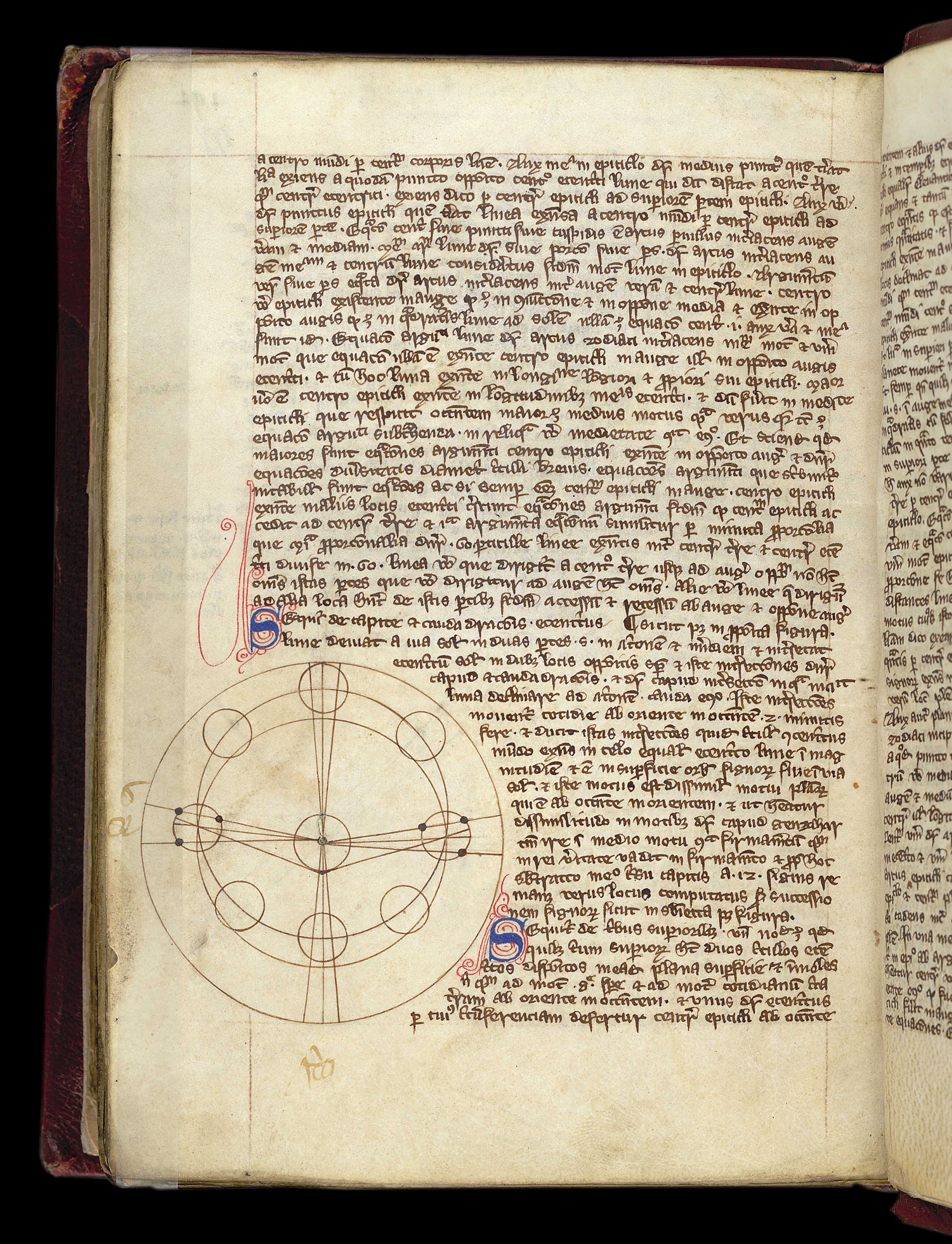 Diagram, In A Volume Of Treatises On Natural Science, Philosophy, And Mathematics. "This manuscript is typical of the sort of book owned by medieval university students: its contents are academic, it is small and easily portable, the text is written in small cursive script, and with minimal decoration. On a flyleaf is a partially erased inscription, recording that it was given by a university graduate to an Oxford school; a later medieval inscription records its ownership by Holy Trinity collegiate church at Tattershall, in Lincolnshire. This diagram, and others like it, occur in a treatise on the planets. Rather than being fitted into the available margins, like most of the other diagrams in the manuscript, it is clear that the scribe made an allowance and left spaces for them." [1]